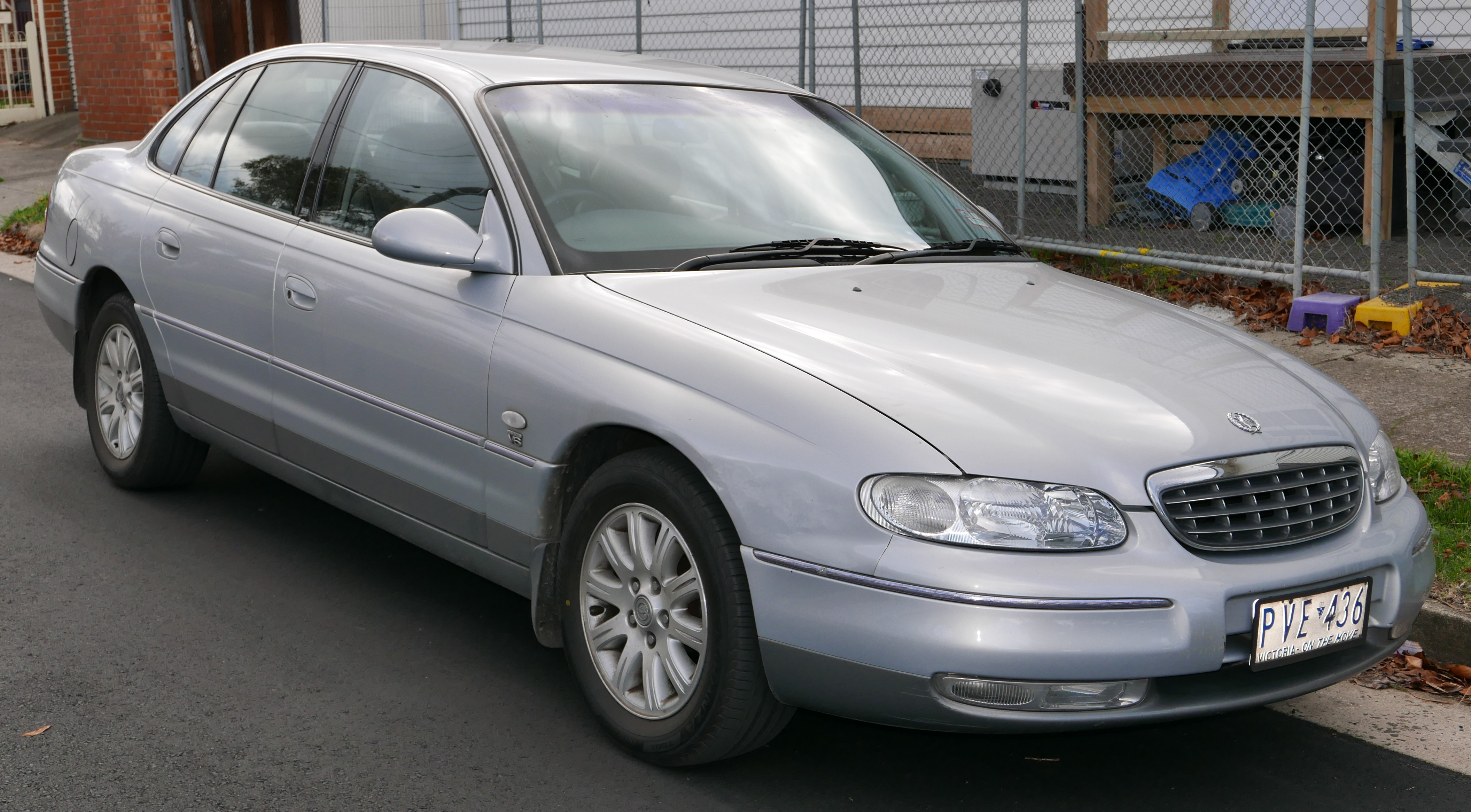 1999 Holden Statesman (WH) sedan. Photographed in Northcote, Victoria, Australia. Vehicle registration enquiry results Jurisdiction Victoria Registration PVE436 Chassis code 6H8WHY19HYL509321 Engine code VH914507 Compliance date 1999-09 Year of manufacture 1999